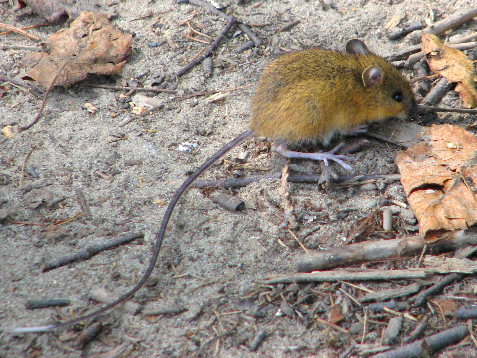 Woodland jumping mouse (Napaeozapus insignis) taken in Sturgeon River Park, Temagami, Ontario